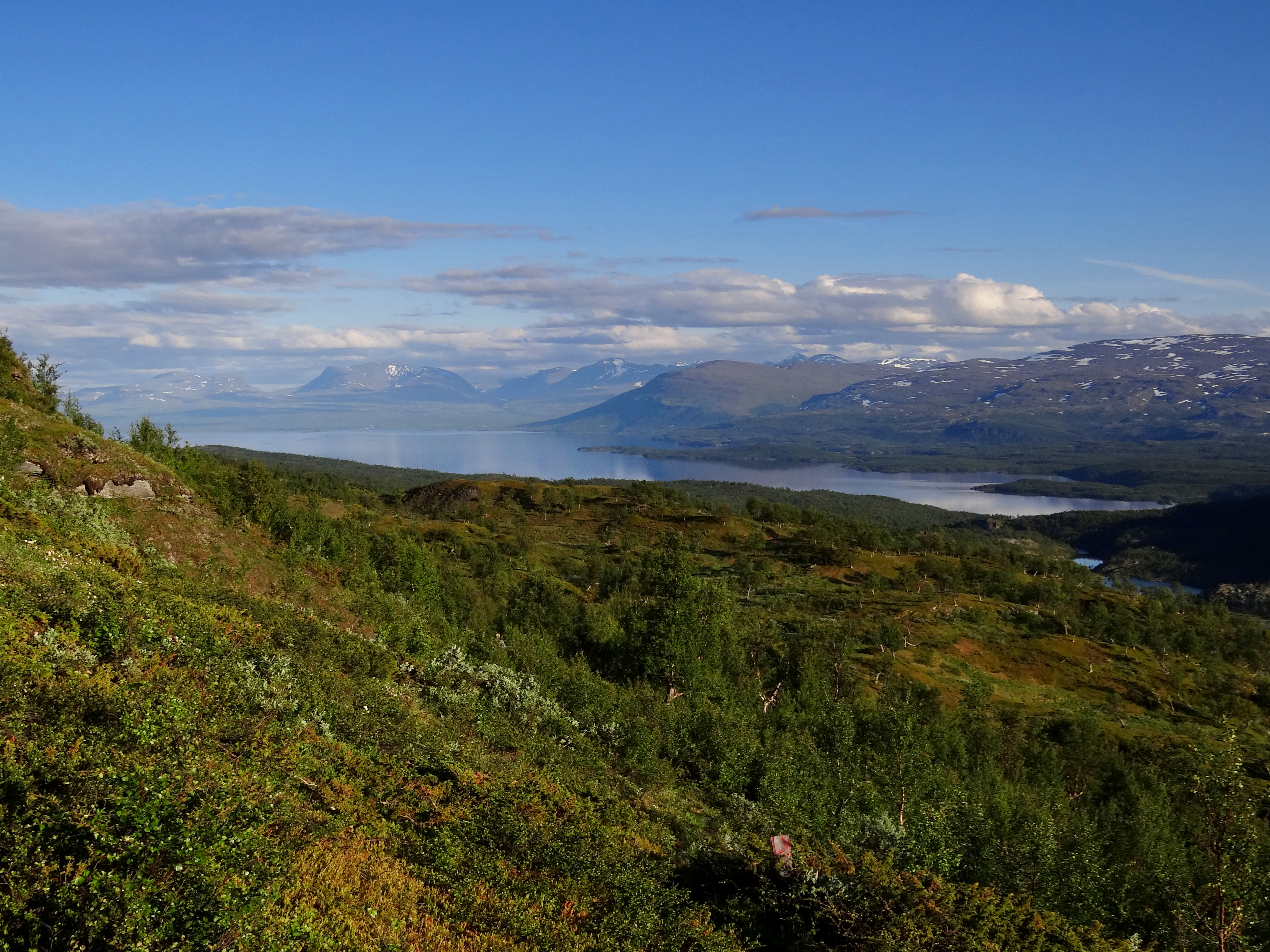 Torneträsk seen from Rohkunborri National Park in Troms, Norway. On the other side of the lake is Lapporten (the mountains forming an inverted arch) and the village Abisko.